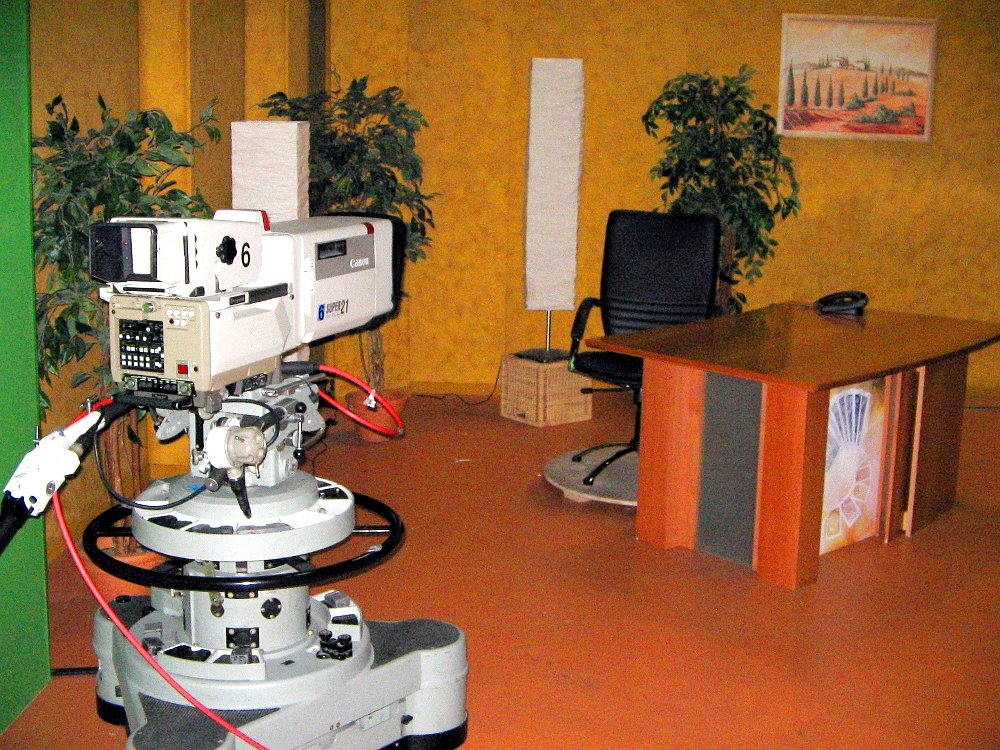 A film set of the fortune-telling show of the German TV-station BTV4U.